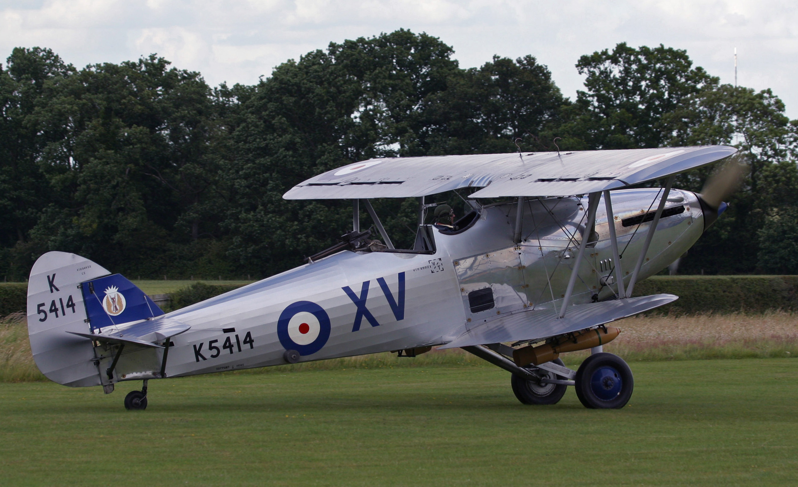 Hawker Hind, Shuttleworth, 2004, taken & submitted by Paul Maritz (paulmaz)